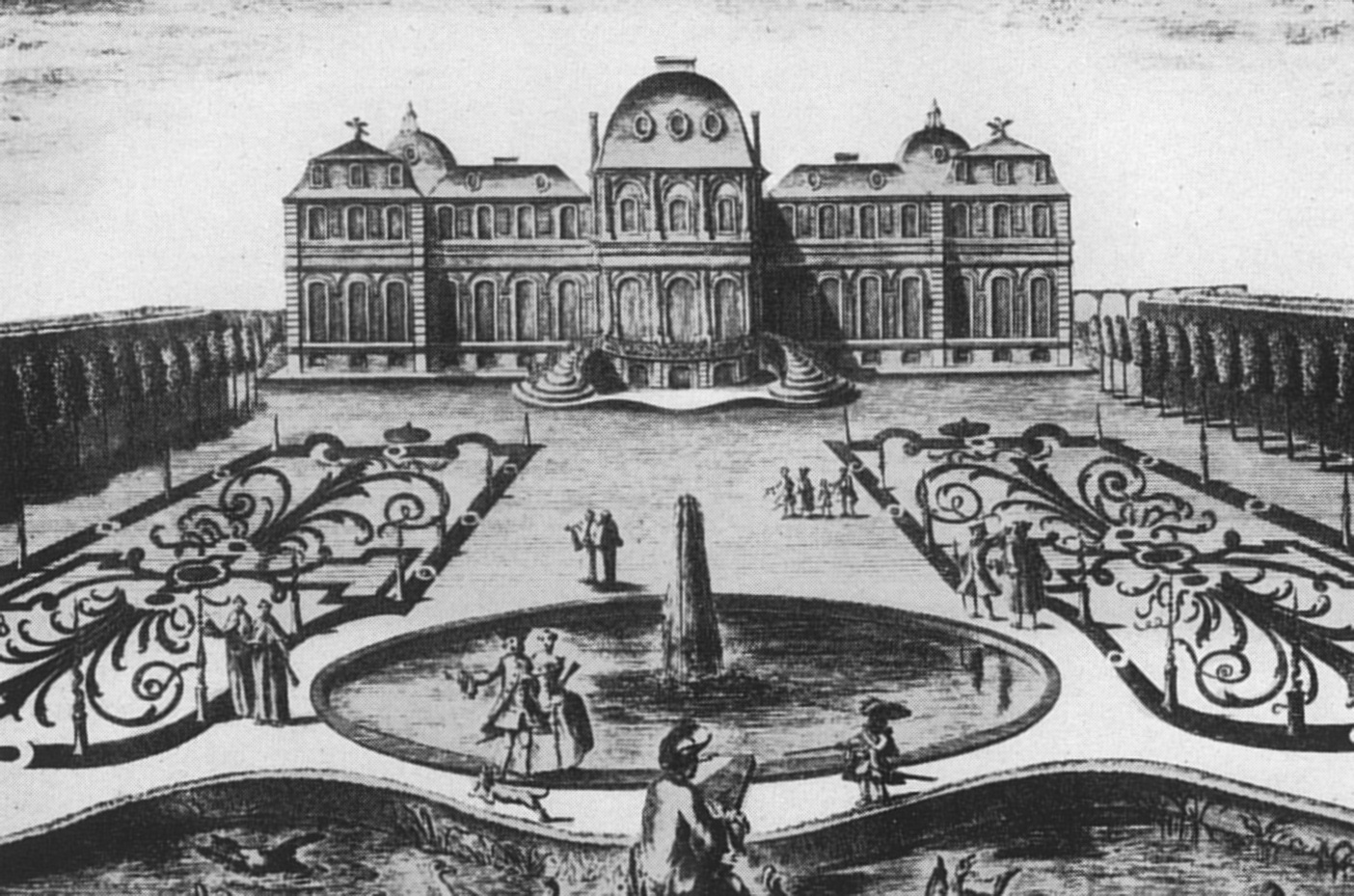 Copper engraving of the Poppelsdorfer Schloss in Bonn-Poppelsdorf